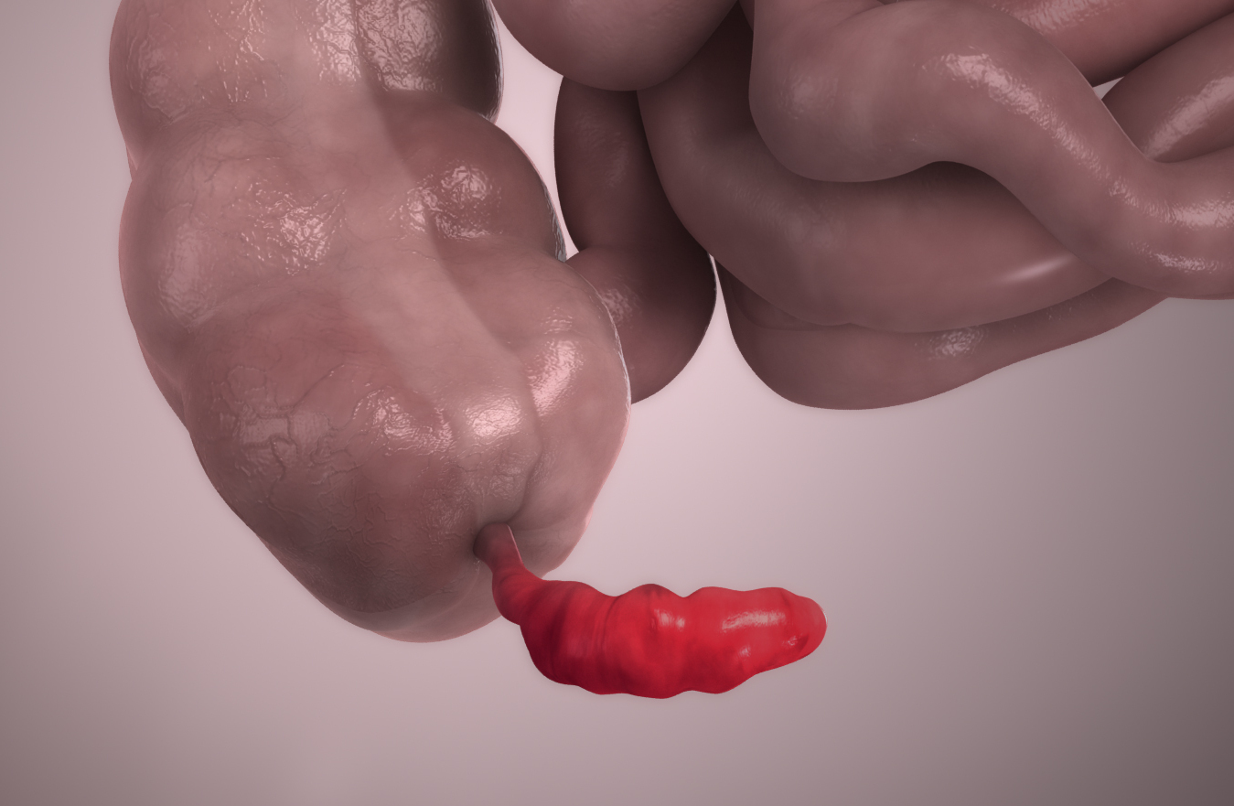 3D medical animation still showing an inflammation of the appendix.